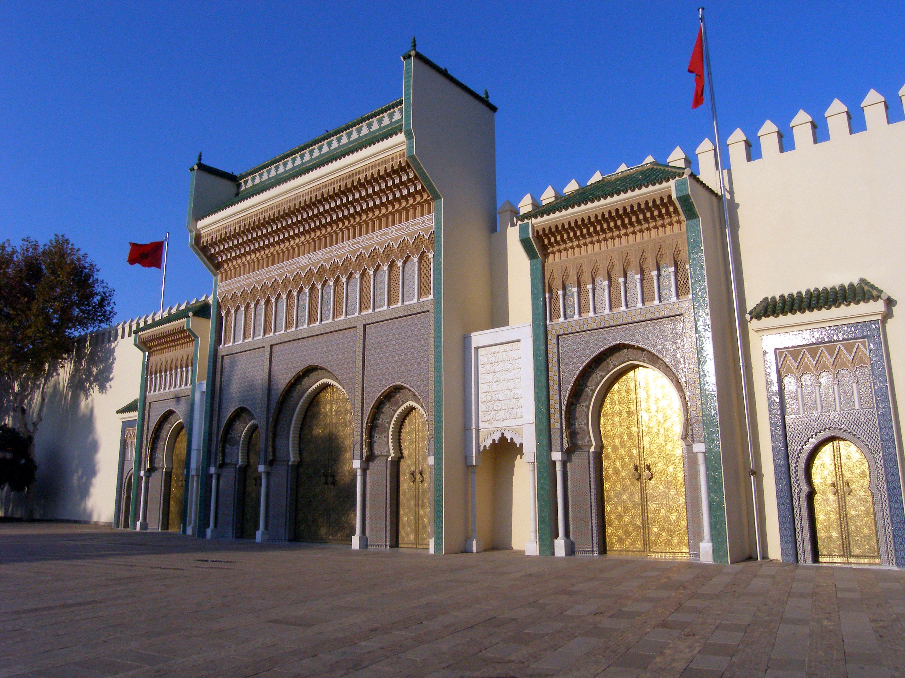 Dar el-Makhzen, the royal palace, in Fes, Morocco